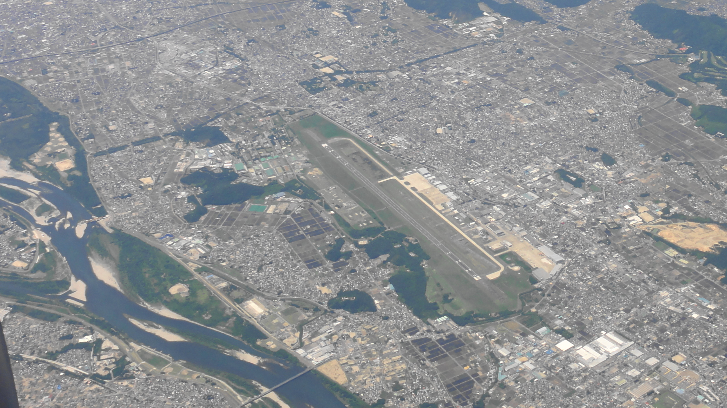 Gifu air filed,Gifu prefecture Japan